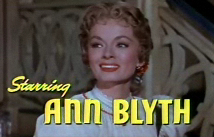 Cropped screenshot of Ann Blyth from the trailer for the film The Student Prince